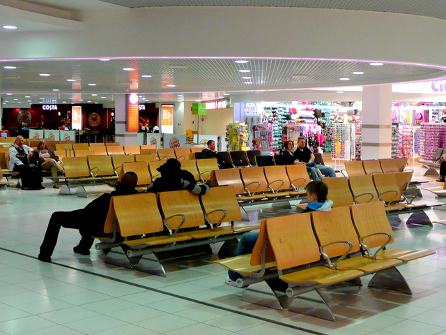 Departure lounge; 5am 2 Seating and shops at the departure lounge of Birmingham Airport's Terminal 2.